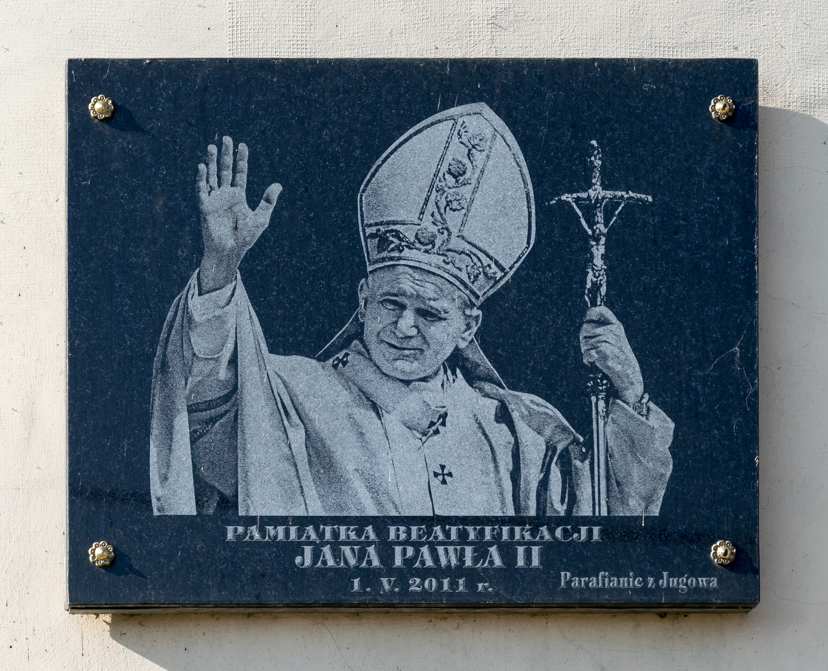 Saint Catherine of Alexandria church in Jugów Wikidata has entry Q30049235 with data related to this item.